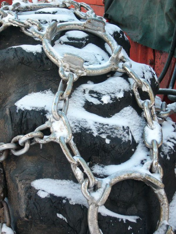 Snow chains on a Timberjack 230 skidder in Swastika, Northern Ontario, Canada